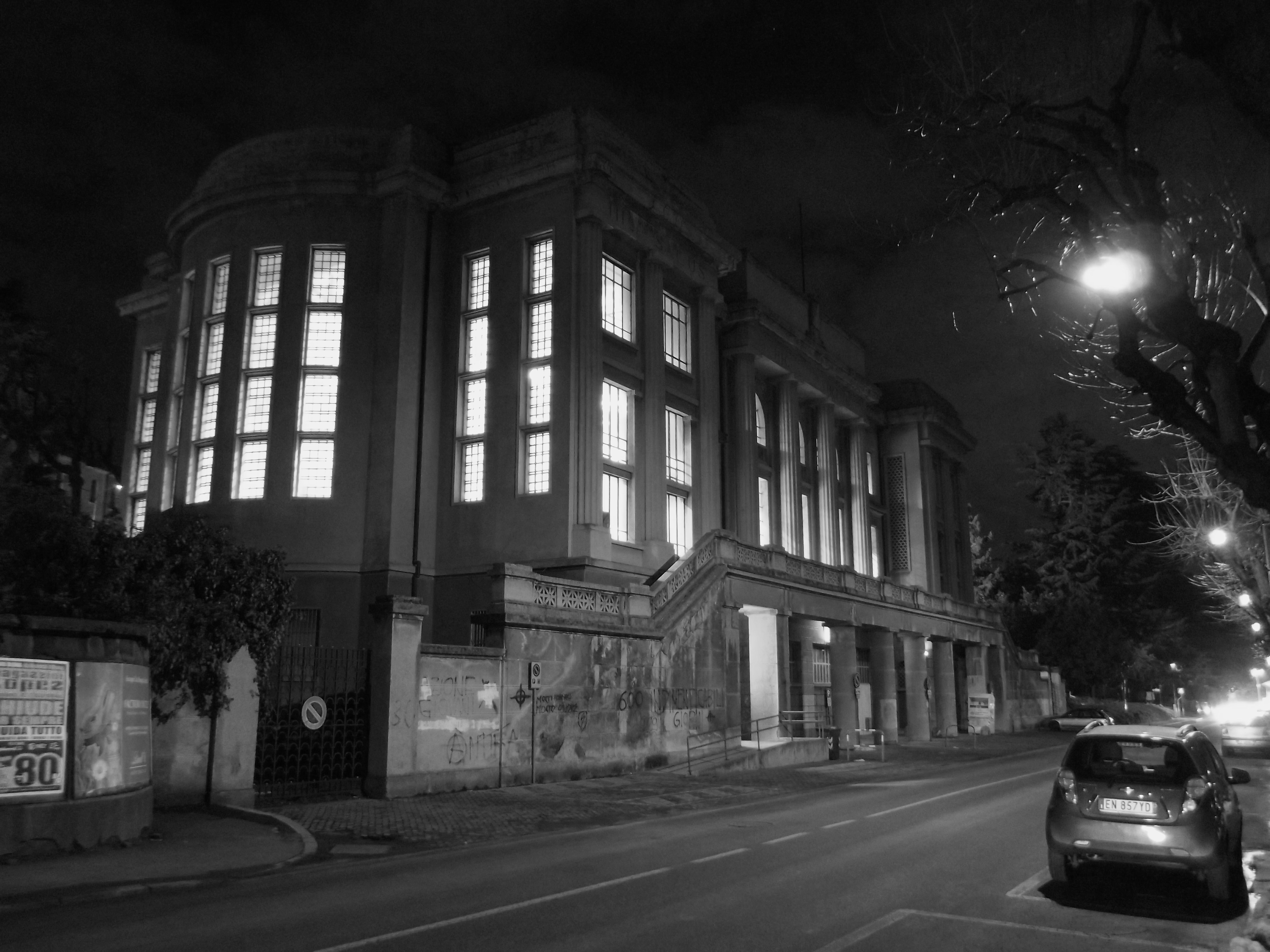 Night view of the Palestra of Via XXV Aprile in Varese, Italy. Picture taken at 8.33 pm.